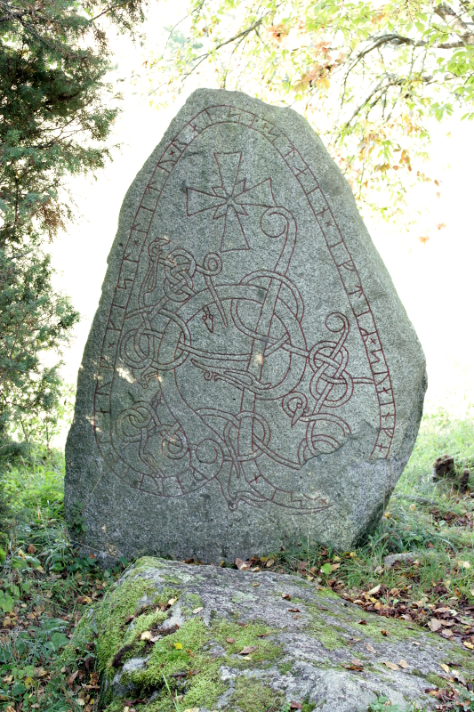 Runestone U 899 Vårdsätra Uppsala Uppland Sweden